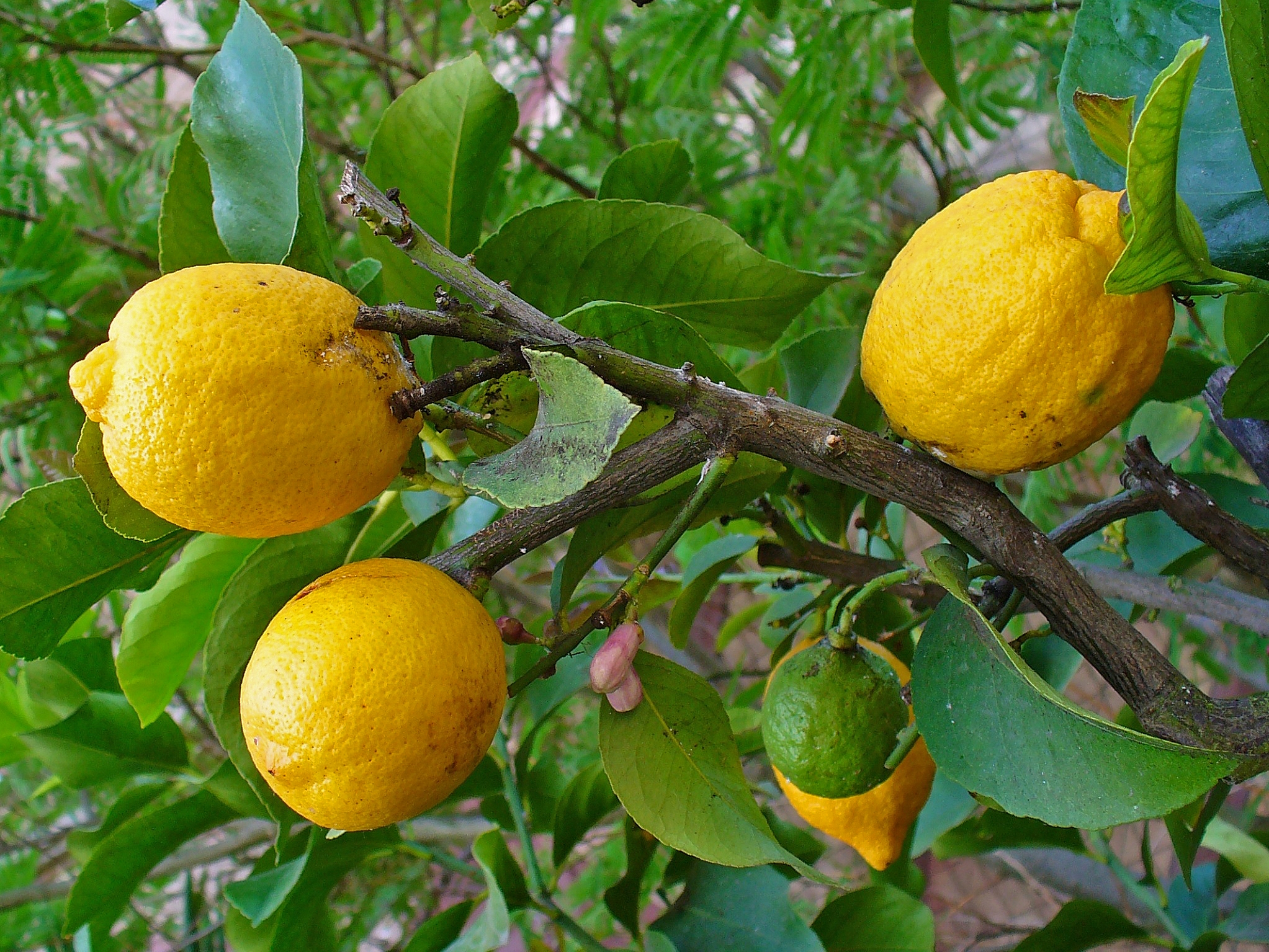 Citrus medica limonum (Citrus × limon), Rutaceae, Lemon, fruits; Botanical Garden Karlsruhe, Germany.